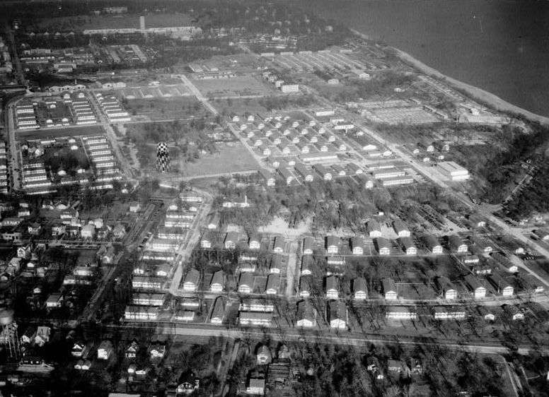 Historic American Buildings Survey, accessed from Library of Congress Copy negative made from negative by TASO, U.S. Army, Fort Sheridan, Illinois